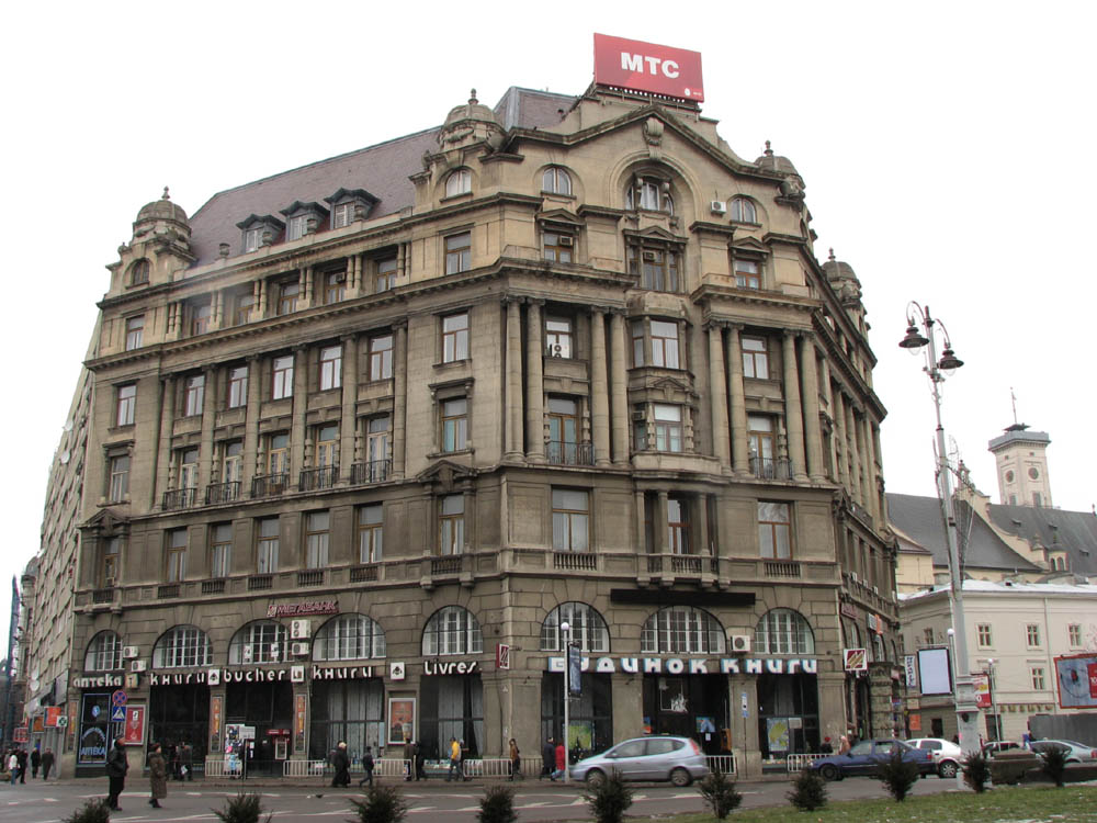 Sprecher House — building at no. 8, Mickewicz Square, Lviv.